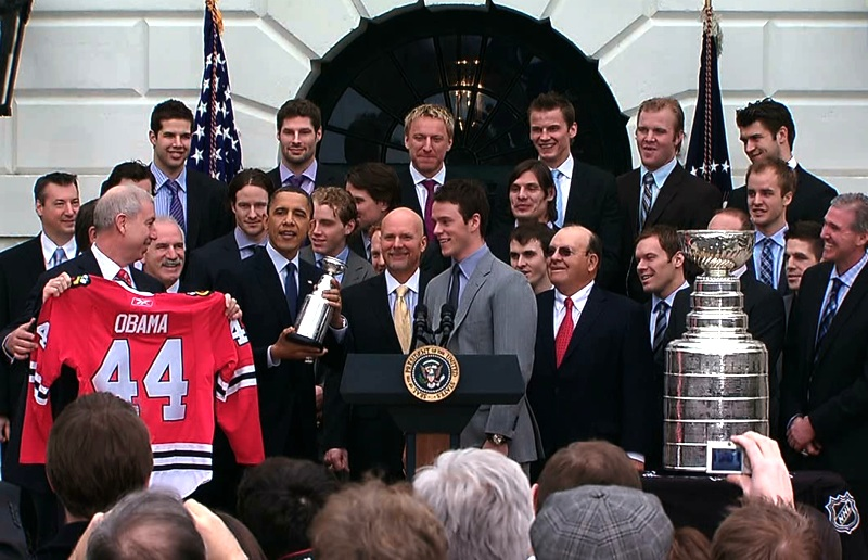 United States President Barack Obama honors the 2010 Stanley Cup Champion Chicago Blackhawks in a ceremony at the White House.